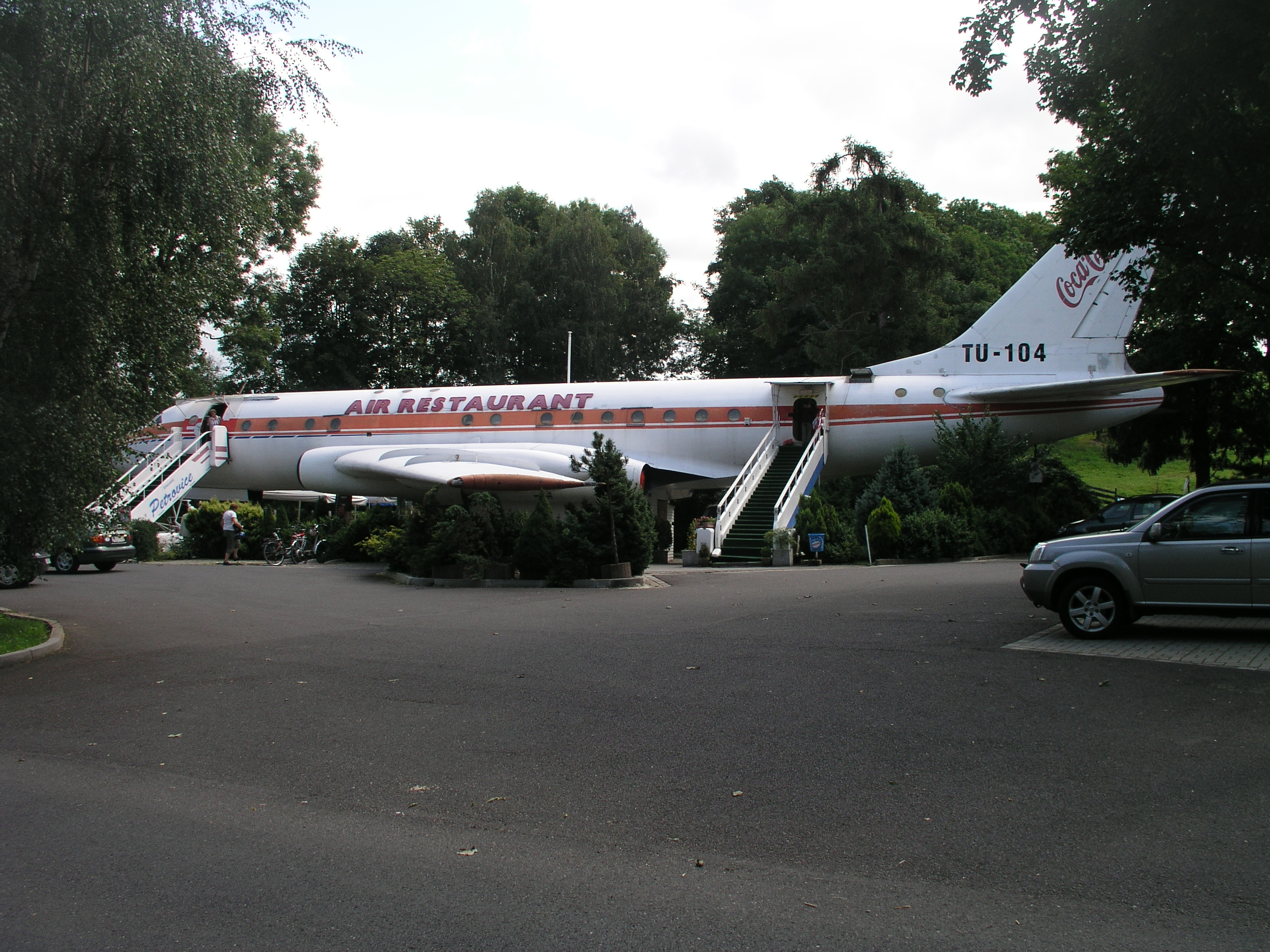 Tupolew Tu-104 airplane in Petrovice, Ústí nad Labem District, Czech Republic. Rebuilt as a restaurant.